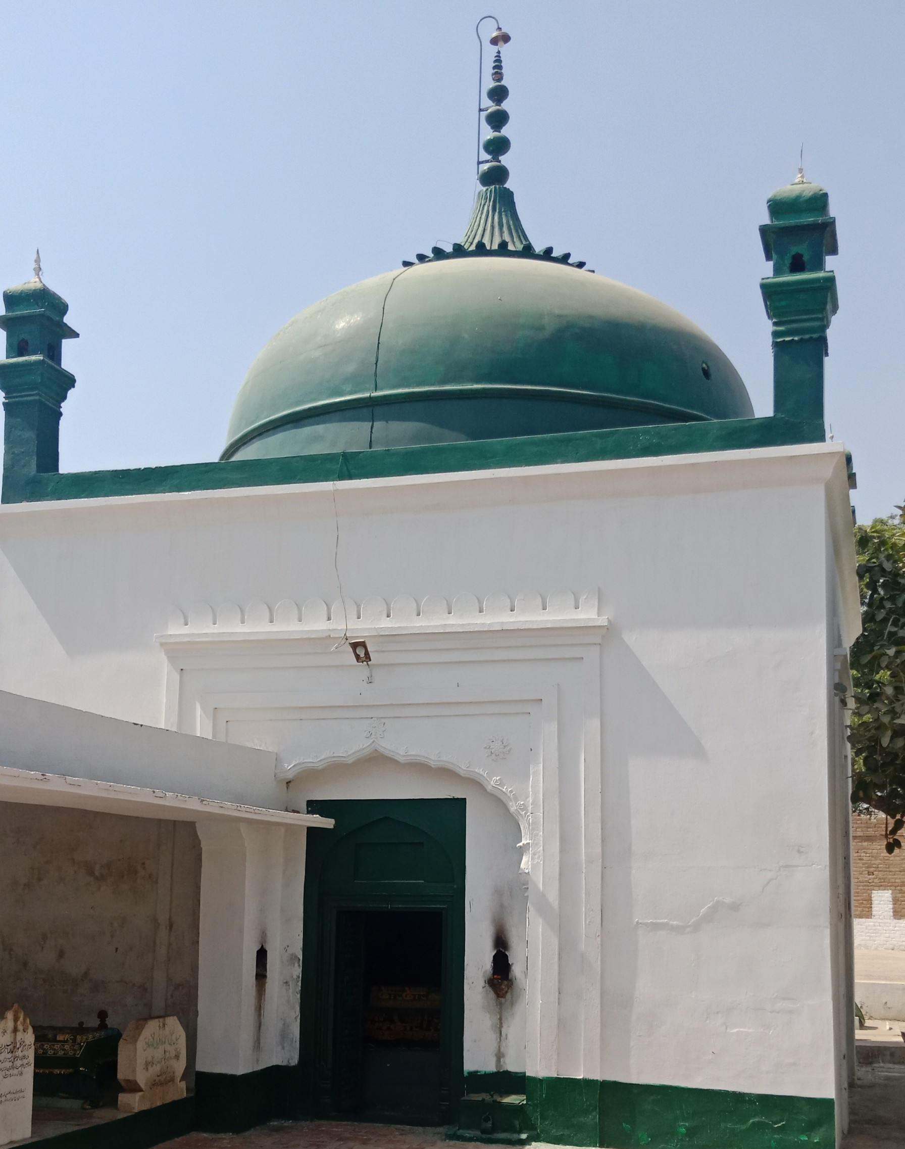 Darbar Hazrat Khawja Qama u Din Chishti R.A. Bunga Hayat